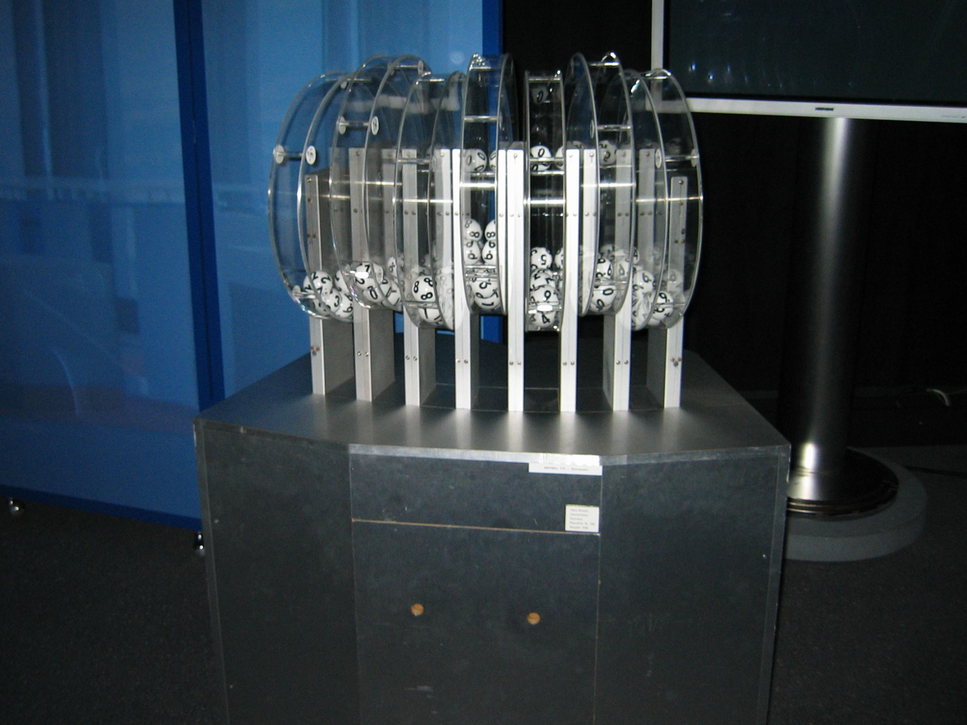 Equipment of Spiel 77 (lottery) at the Television studio of Hessischer Rundfunk in Main Tower, Frankfurt am Main